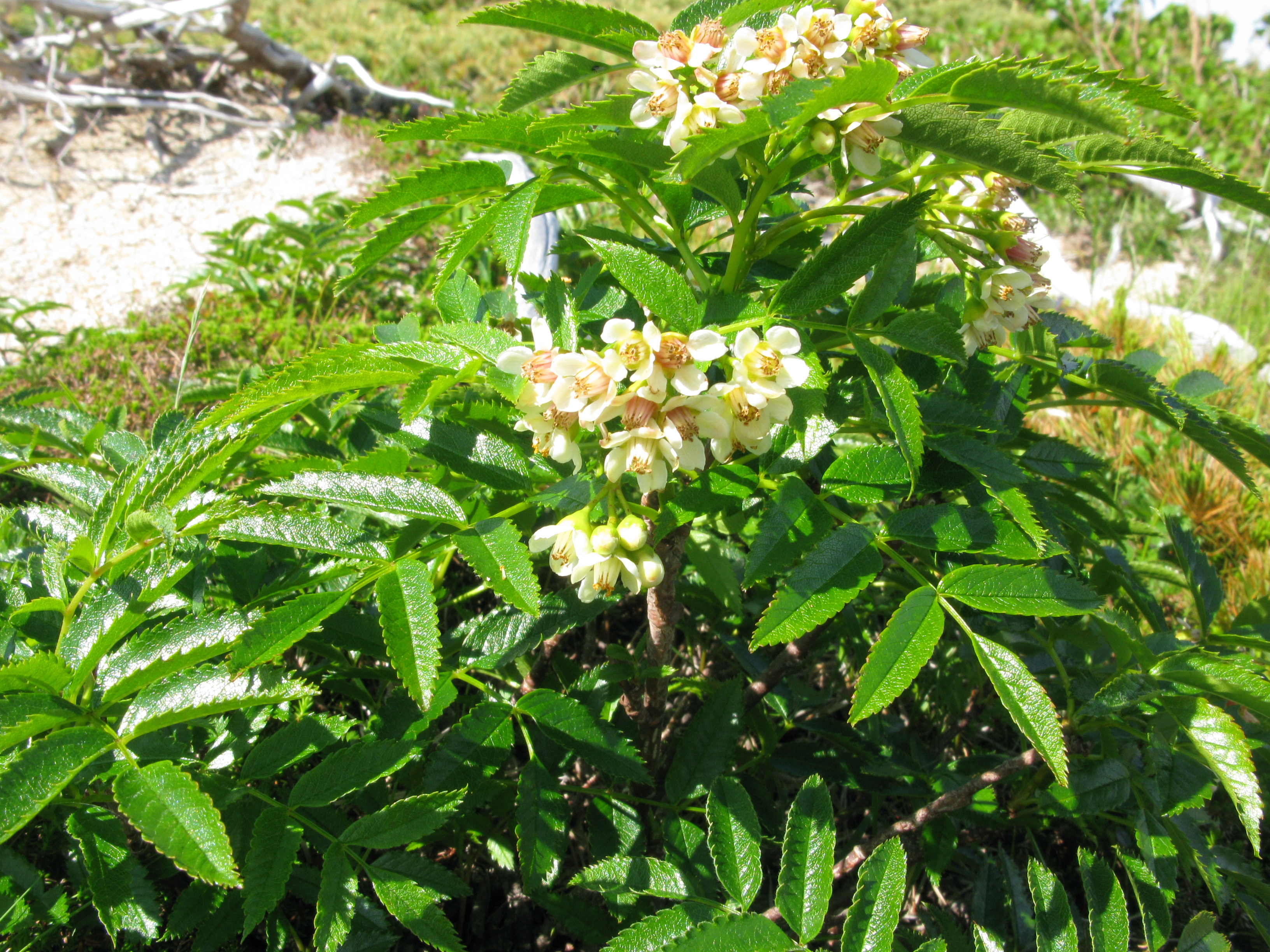 Sorbus sambucifolia, Mount Iide, Fukushima pref., Japan